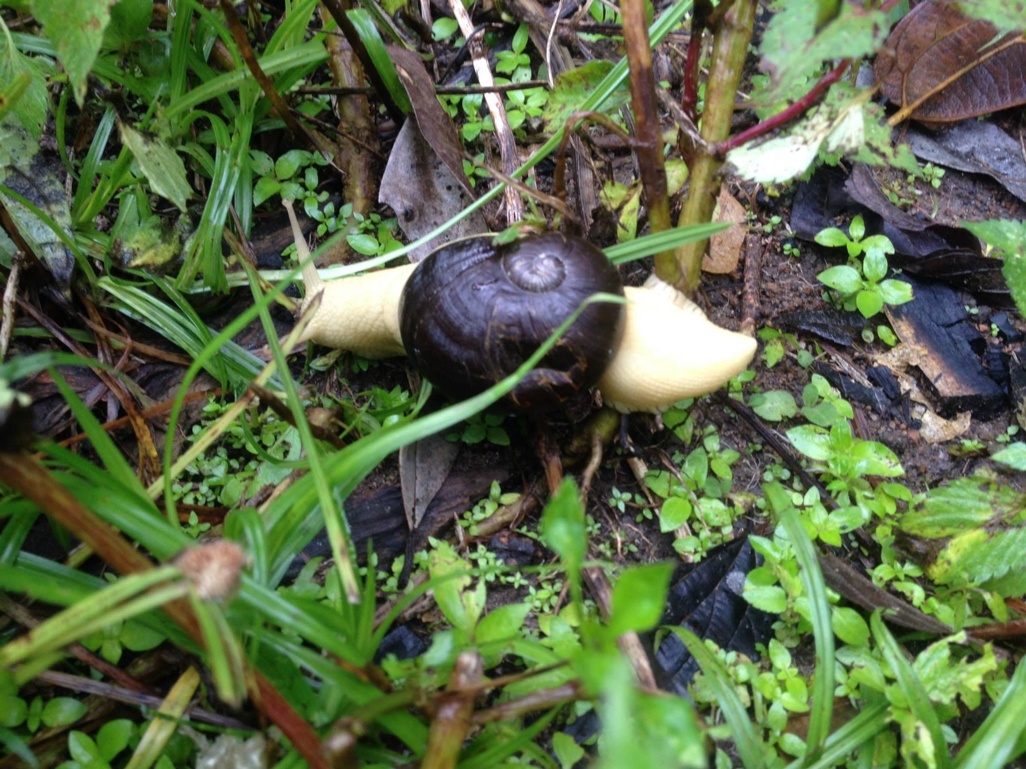 Creaminsh morph of Indrella ampula